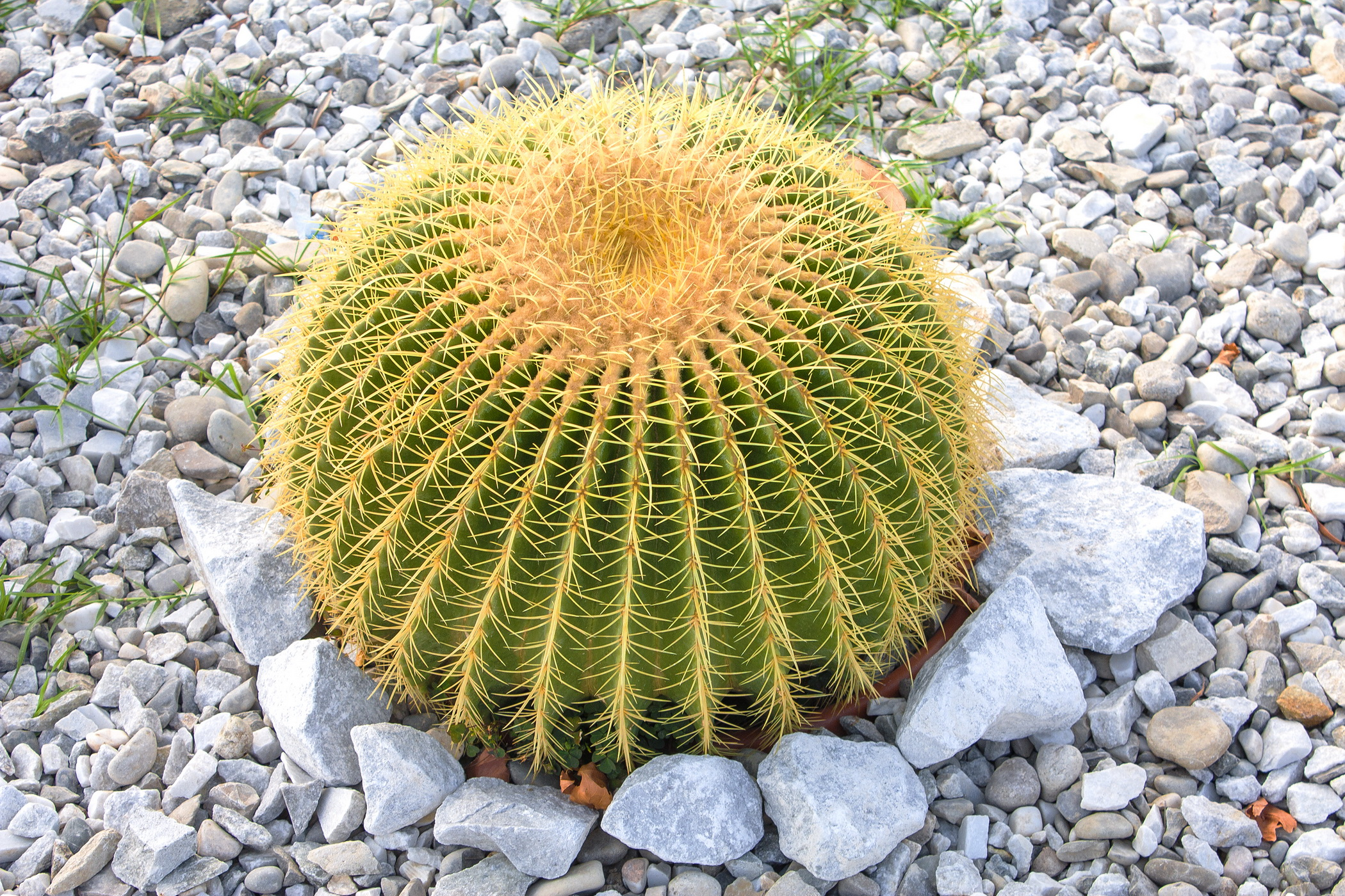 ECHINOCACTUS GRUSONII - Echinocactus grusonia. Growing in Seaside Park in Baku, Azerbaijan